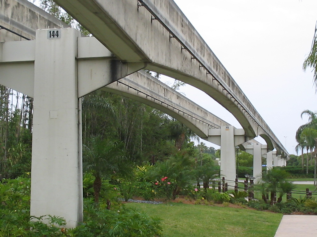 Guideway monorail Disney World, Orlando, May 2005